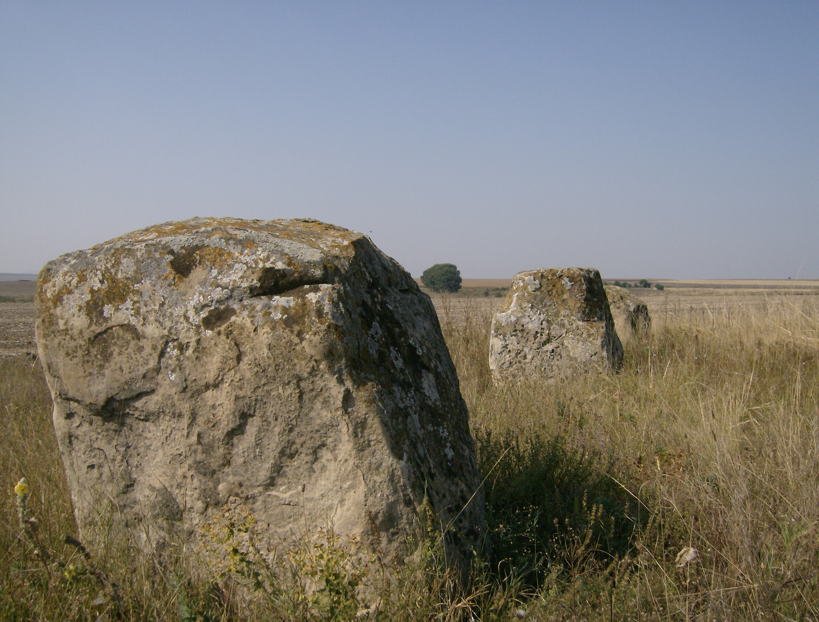 Menhirs near Pliska